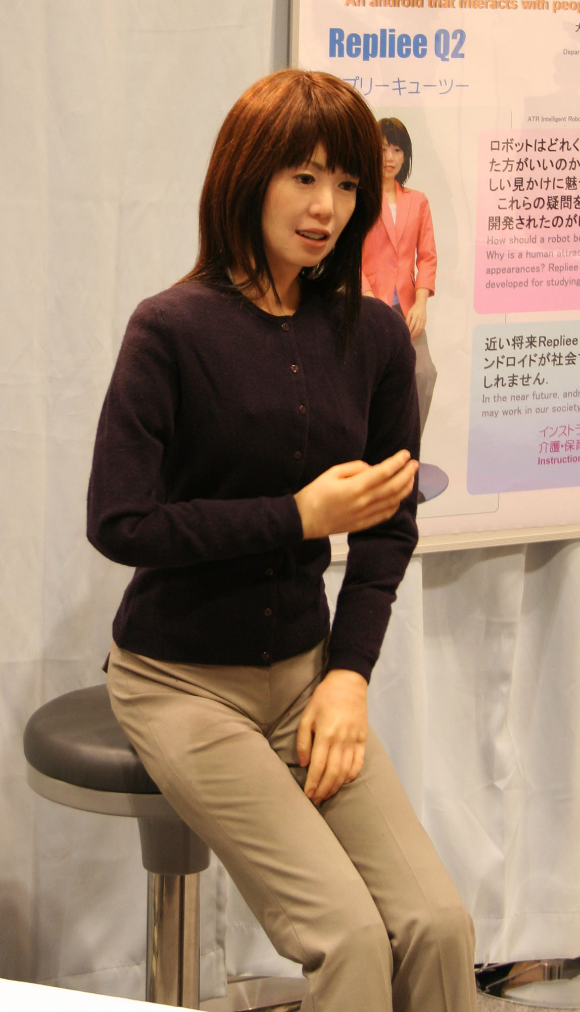 Repliee Q2. Taken at Index Osaka Note: The model of Repliee Q2 is probably same as Repliee Q1expo, Ayako Fujii, announcer of NHK.